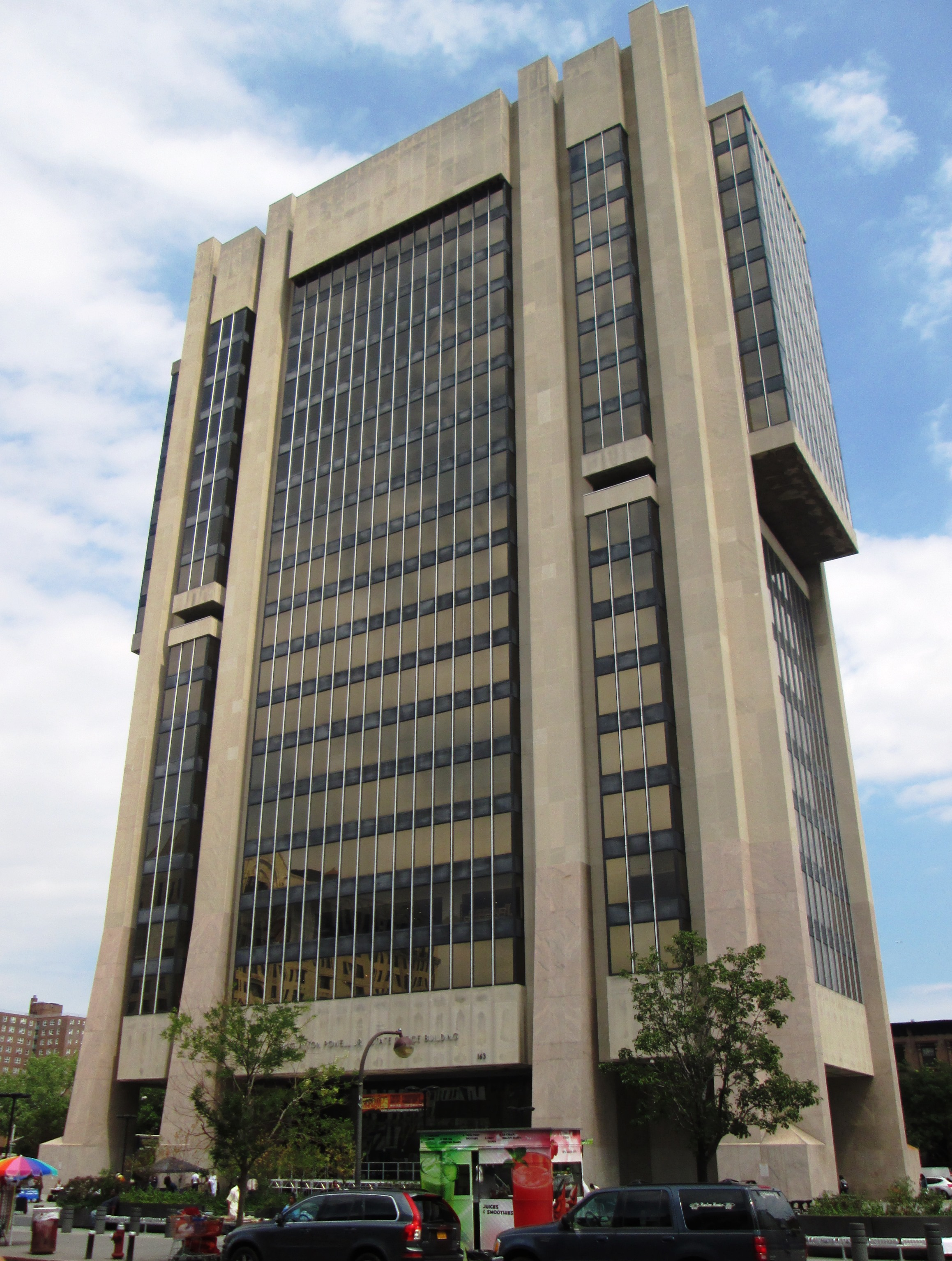 The Adam Clayton Powell Jr. State Office Building, originally the Harlem State Office Building, is a nineteen story high-rise office building located at 163 West 125th Street at the corner of Adam Clayton Powell Jr. Boulevard in the Harlem neighborhood of Manhattan, New York City. It is named after Adam Clayton Powell Jr., the first African-American elected to Congress from New York, and was designed by the African-American architecture firm of Ifill Johnson Hanchard in the Brutalist style. It is the tallest building in Harlem, overtaking the nearby Hotel Theresa.